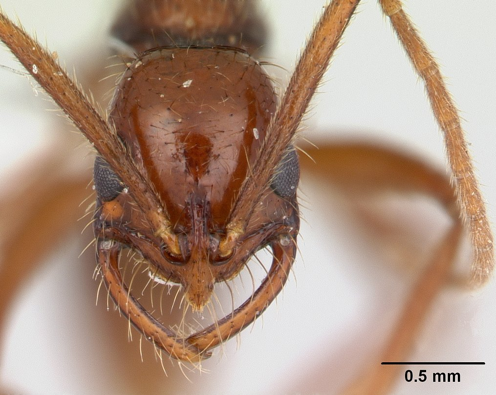 Head view of ant Leptogenys amazonica specimen casent0178836.